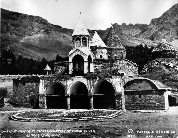 Front view of St Cross (Surb Khach) Monastery of Varag in Van.